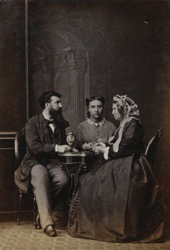 Portrait of French photographer Camille Silvy, his wife Alice and his mother Marie-Louise, photographed by Camille Silvy in London. 3 1/4 in. x 2 1/4 in. Albumen print. Courtesy of the National Portrait Gallery, London.